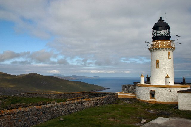 Barra Head Lighthouse with the islands of Mingulay, Pabbay, Sandray and Barra, Outer Hebrides, Scotland